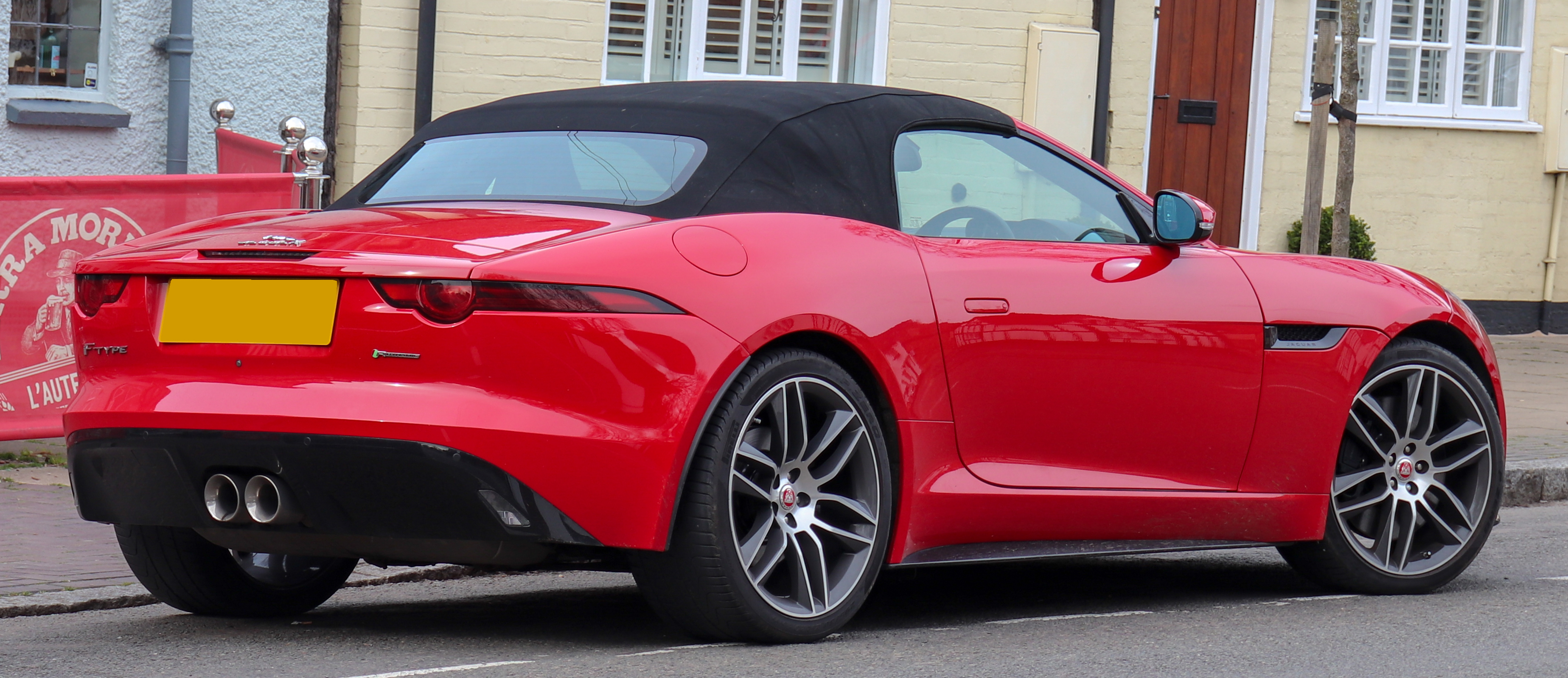 2017 Jaguar F-Type V6 R-Dynamic Automatic 3.0 Rear Taken in Warwick